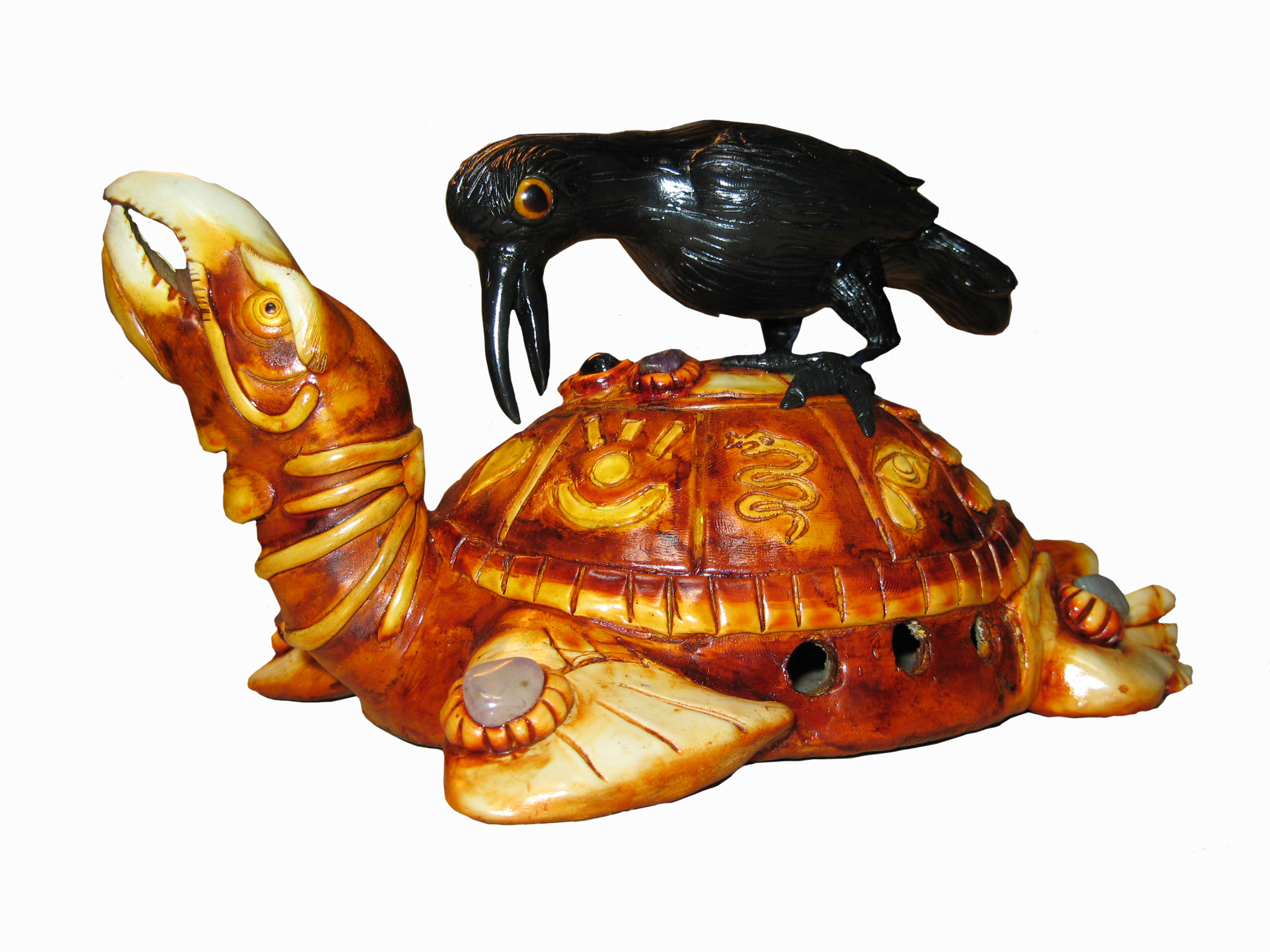 Sea Turtle/Zanate bird whistle from P.V.Mexico area. Signed by Javier Martinez Olivera